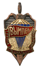 Badge of the Vympel Group